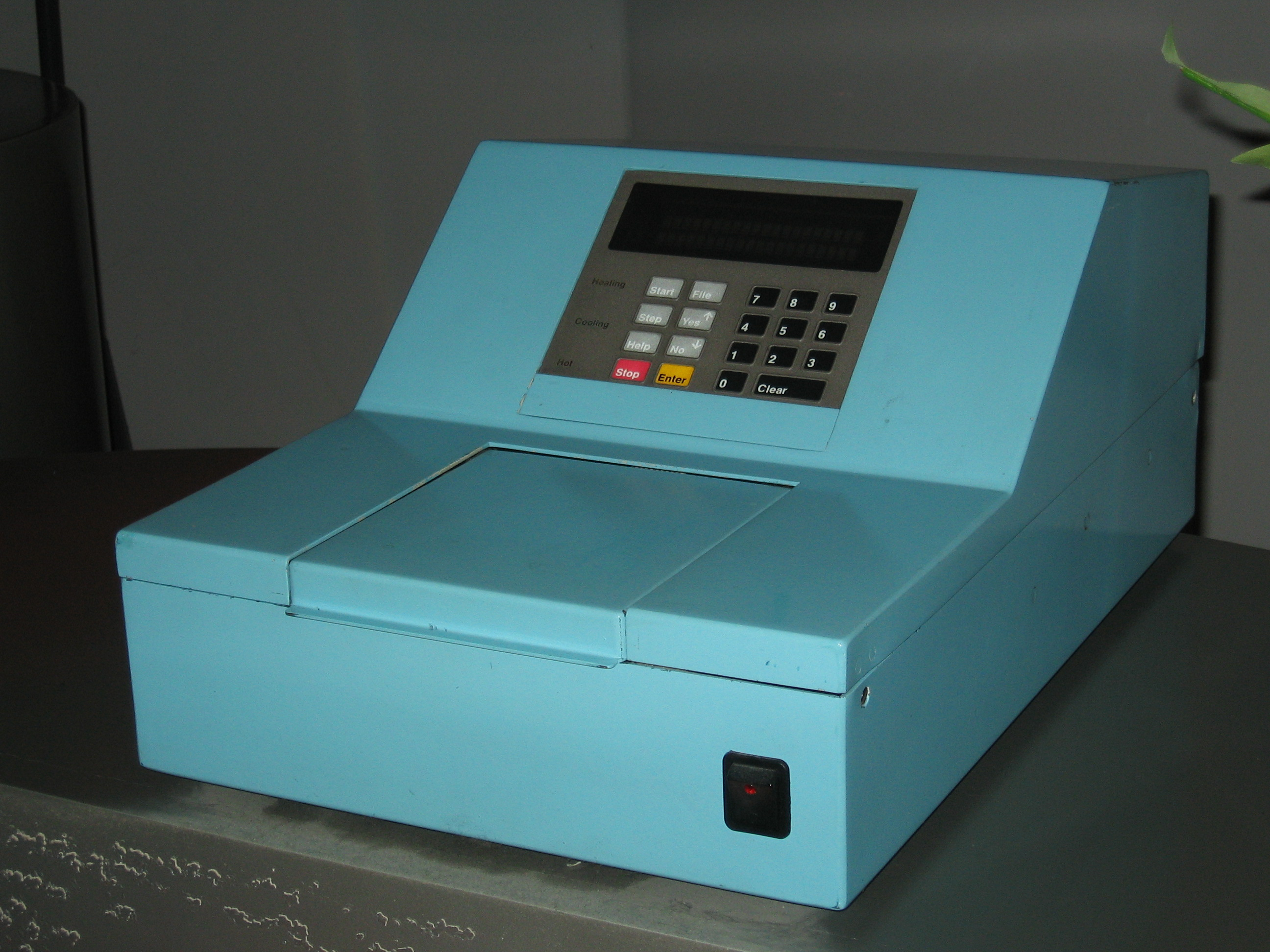 A prototype PCR thermal cycler developed by Cetus Corporation in 1986 (the first model embedding the software cycling controller in the thermal cycling block). Now exposed at the Science Museum, London.